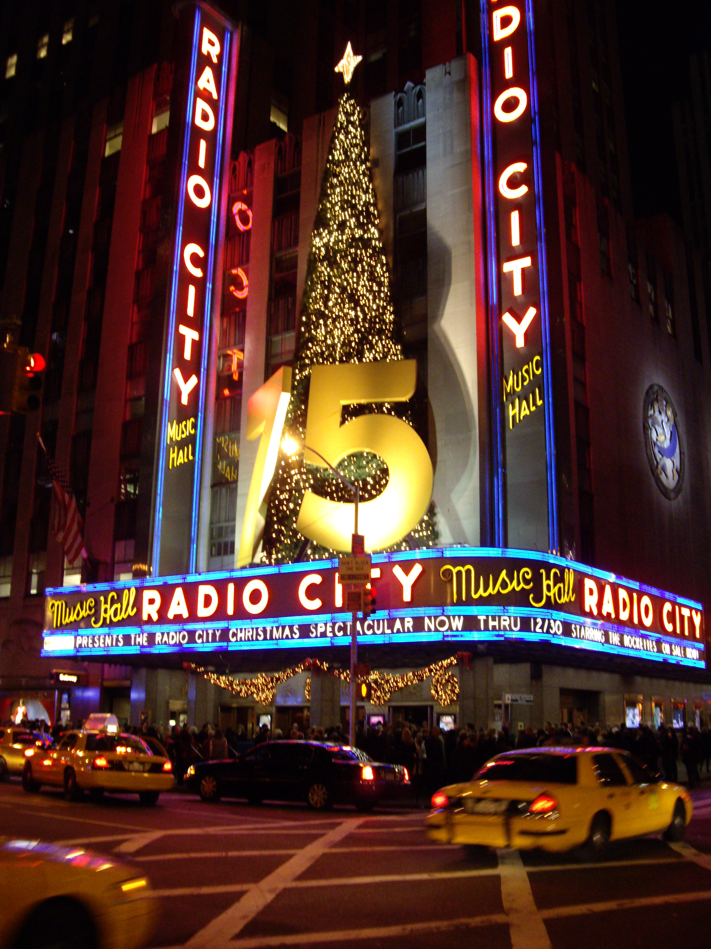 Radio City Music Hall by Night